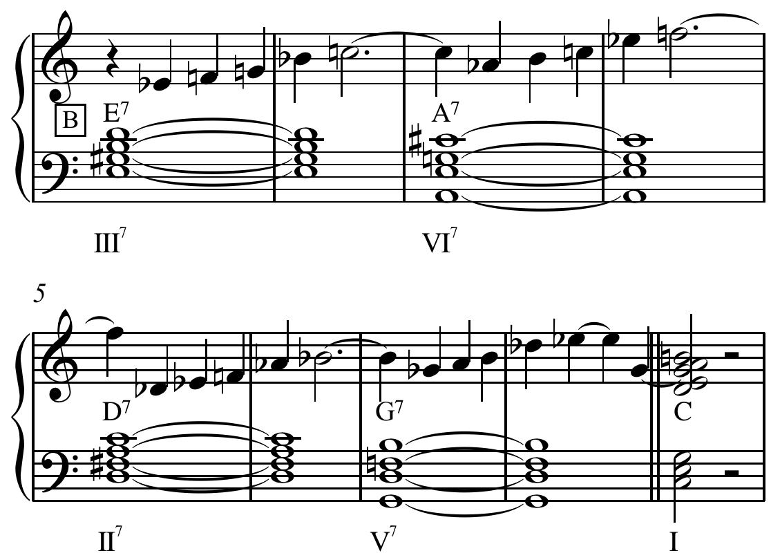 Side-slipping on rhythm changes B section. For example: E7 chord's scale = E mixolydian so the non-scale notes = Eb major pentatonic. Created by Hyacinth (talk) 16:39, 12 December 2010 using Sibelius 5.